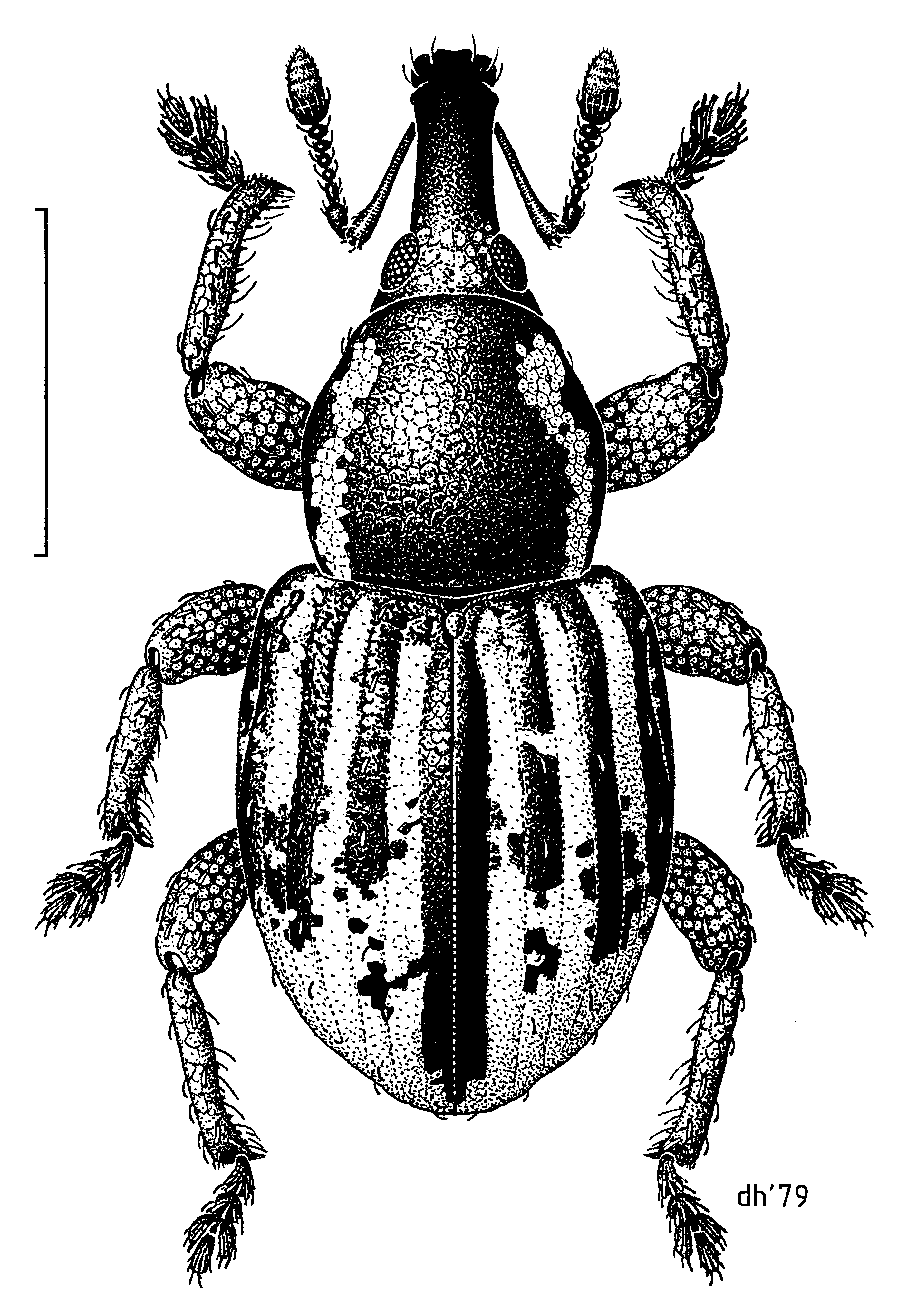 (Coleoptera: Curculionidae) Baeosomus iridescens, flightless illustrated by Des Helmore.